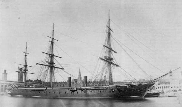 HMS Warrior, Britain's first ironclad warship